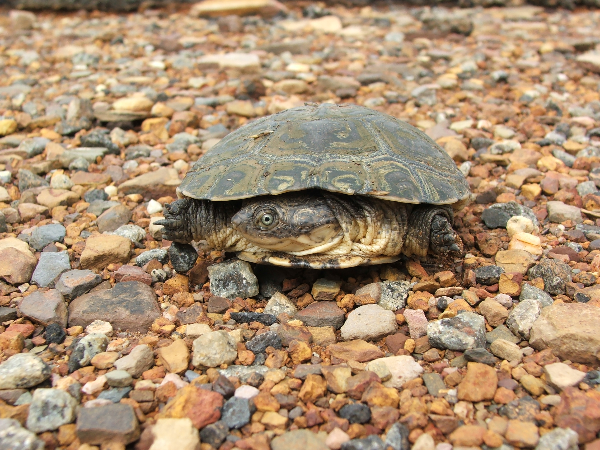 Pelomedusa subrufa Picture taken close to the town of Zeerust in South Africa